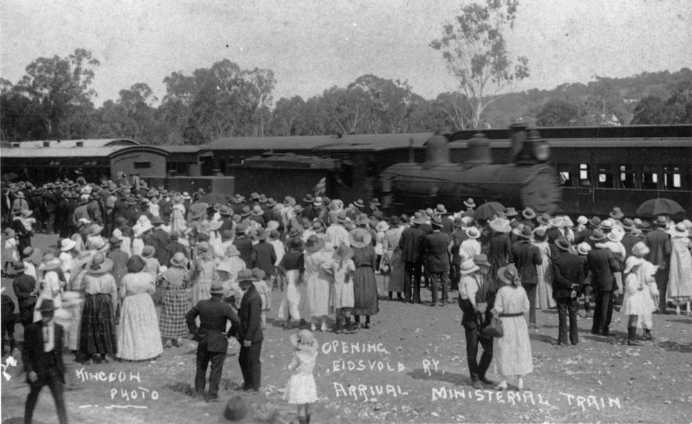 Crowds gathered for the arrival of the Ministerial Train at Eidsvold Railway Station, ca. 1920 People are attending the opening of the new railway line from Eidsvold to Mundubbera and the officials were arriving by the first steam train to use the line.